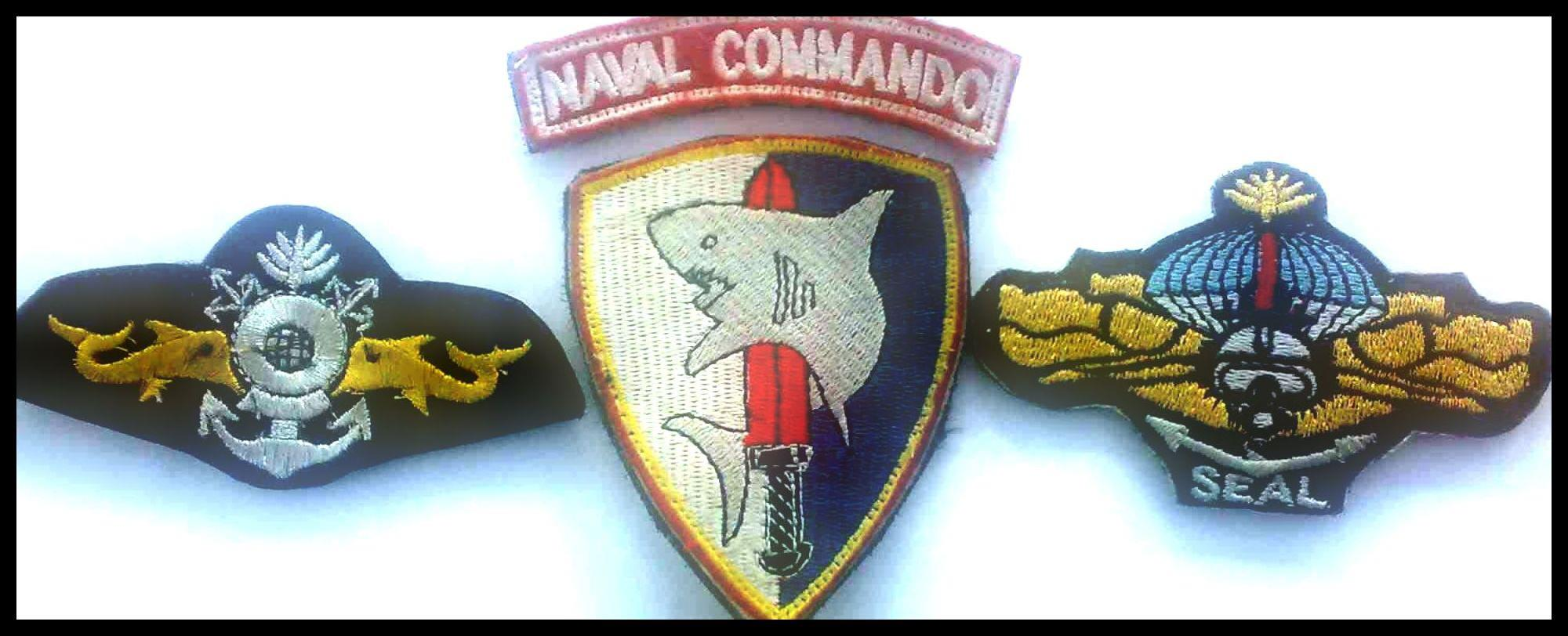 Banfladesh Navy SWADS Batches